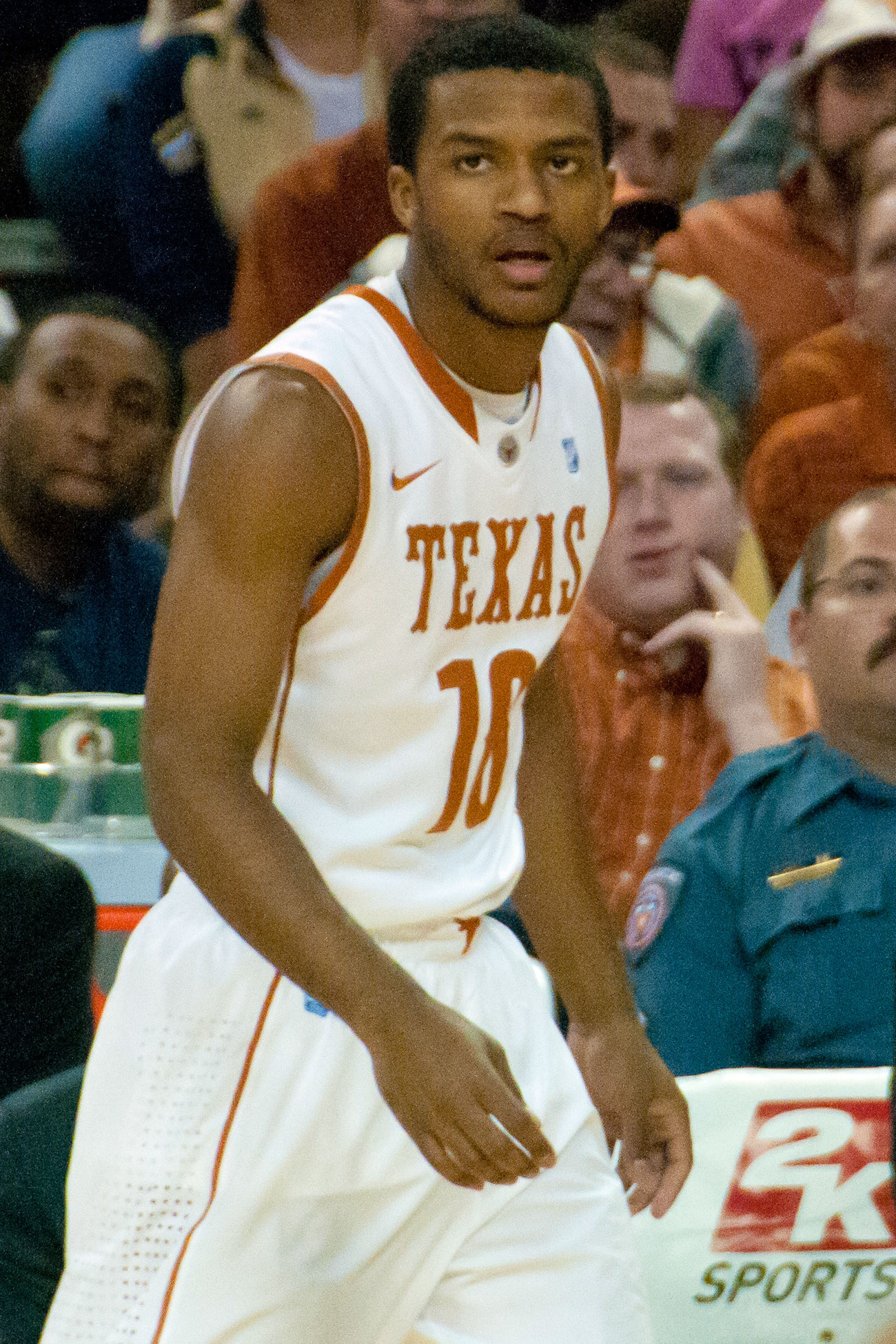 Jai Lucas of Texas Texas Longhorns vs Navy Midshipmen, Coaches vs Cancer Classic, November 8, 2010, Frank Erwin Center, Austin, Texas